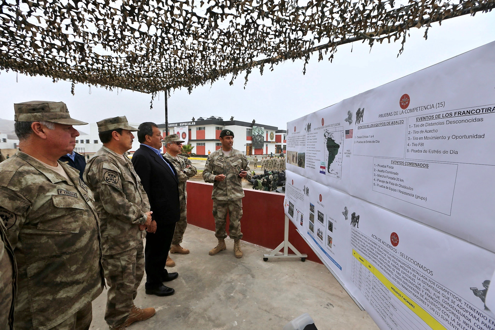 Minister Nieto sends off the team that will represent Peru in the Fuerzas Commando 2017 competition to be performed in Paraguay.